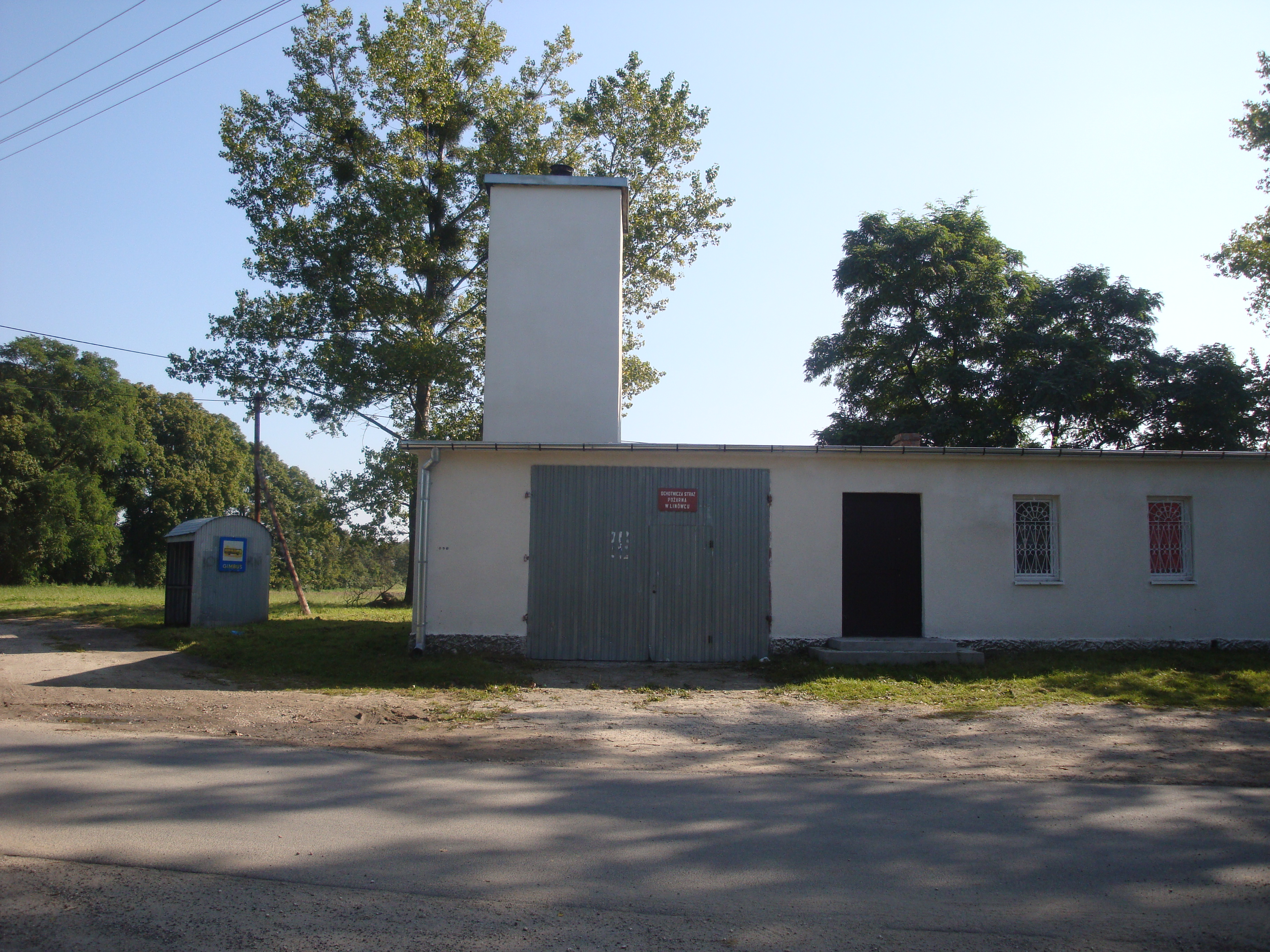 Linowiec-Village in Kyavian-Pomeranian Voivodeship, Poland